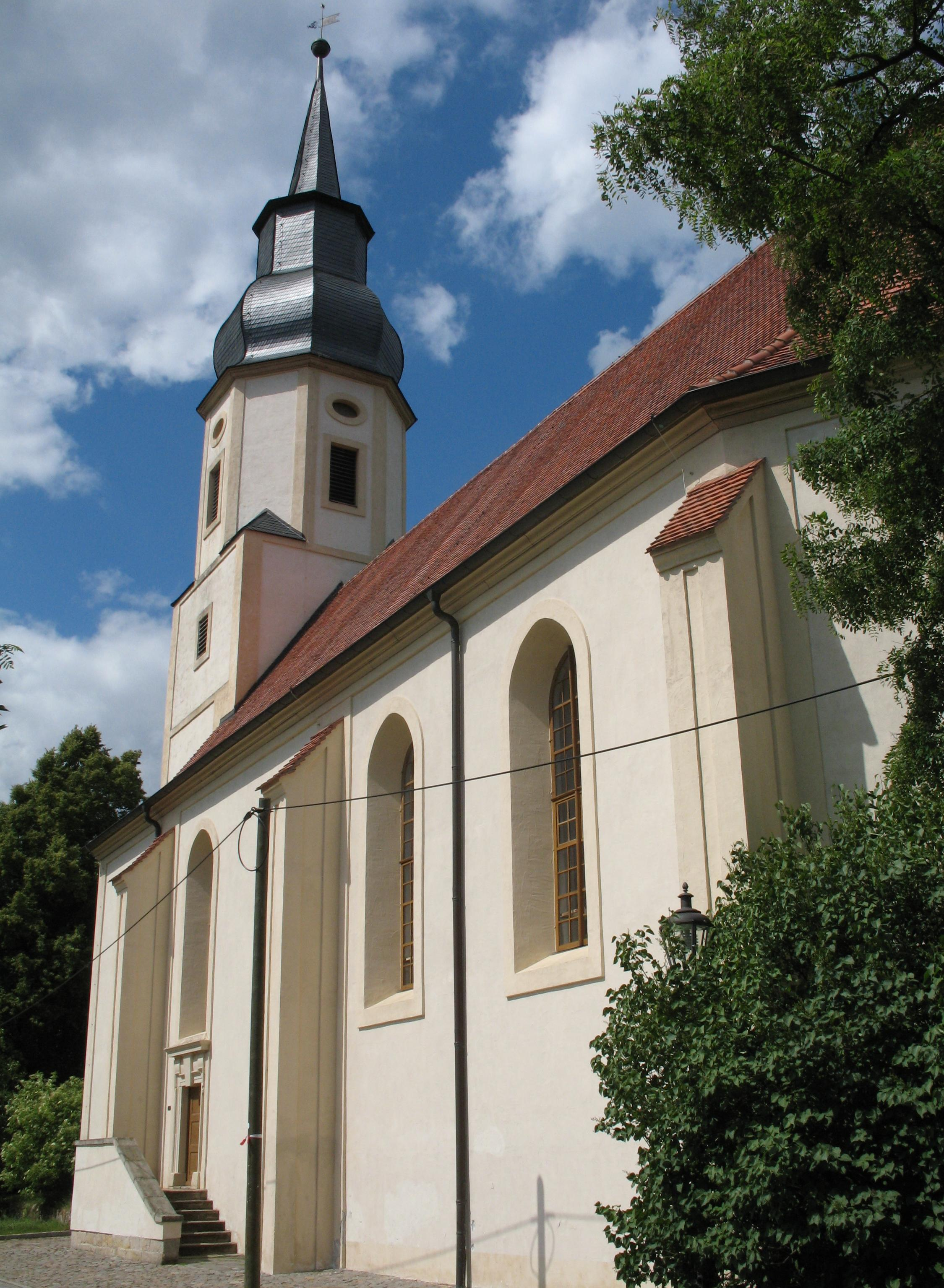 Church in Bad Schmiedeberg-Reinharz in Saxony-Anhalt, Germany